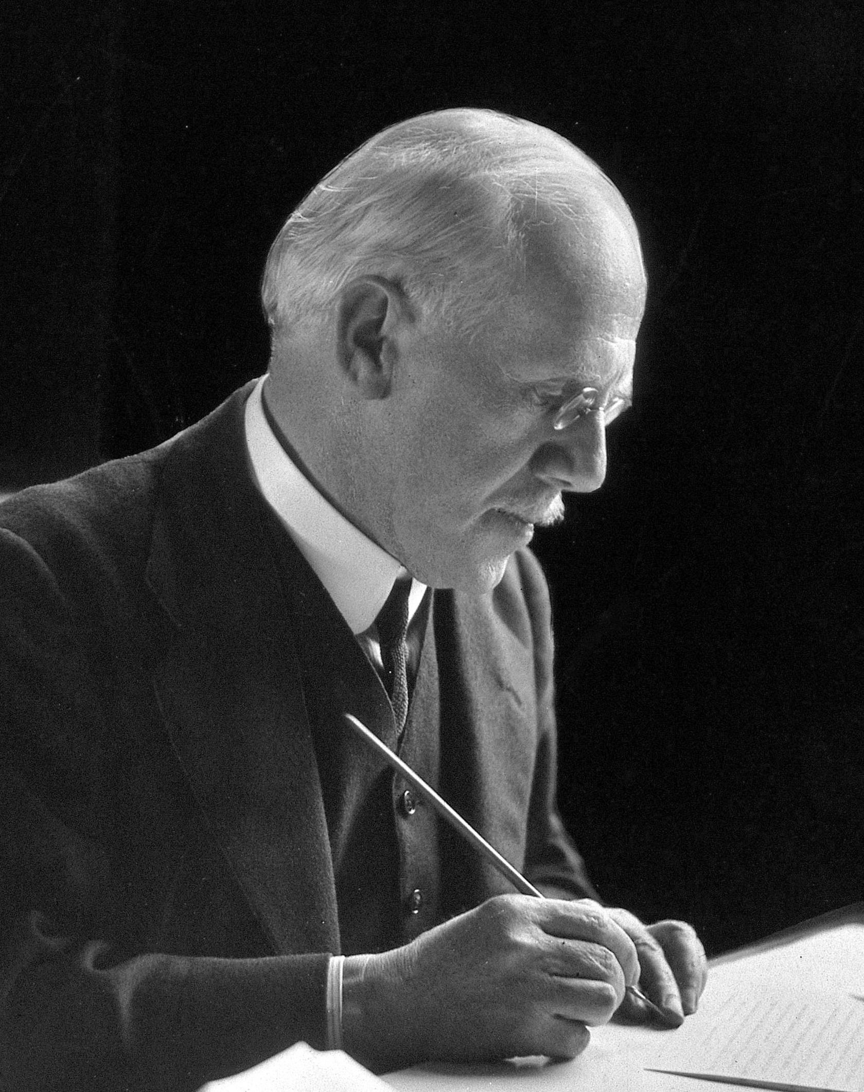 Sir George Newman. Photograph.